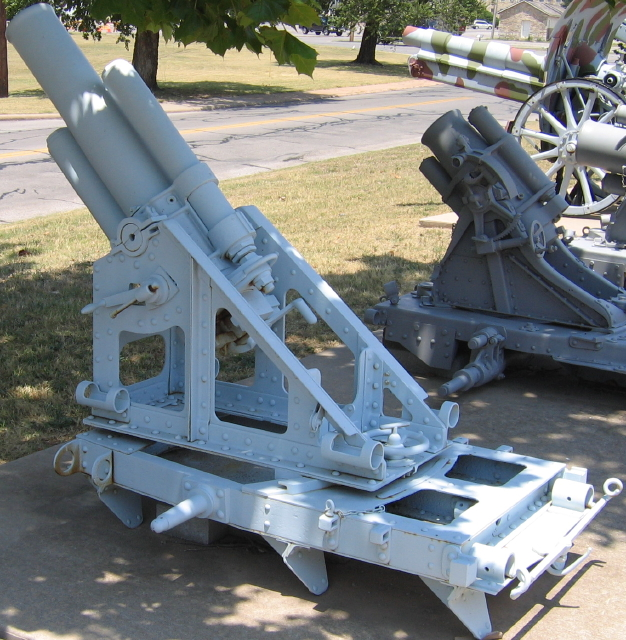 side view of Mortier de 150 mm T Mle 1917 Fabry